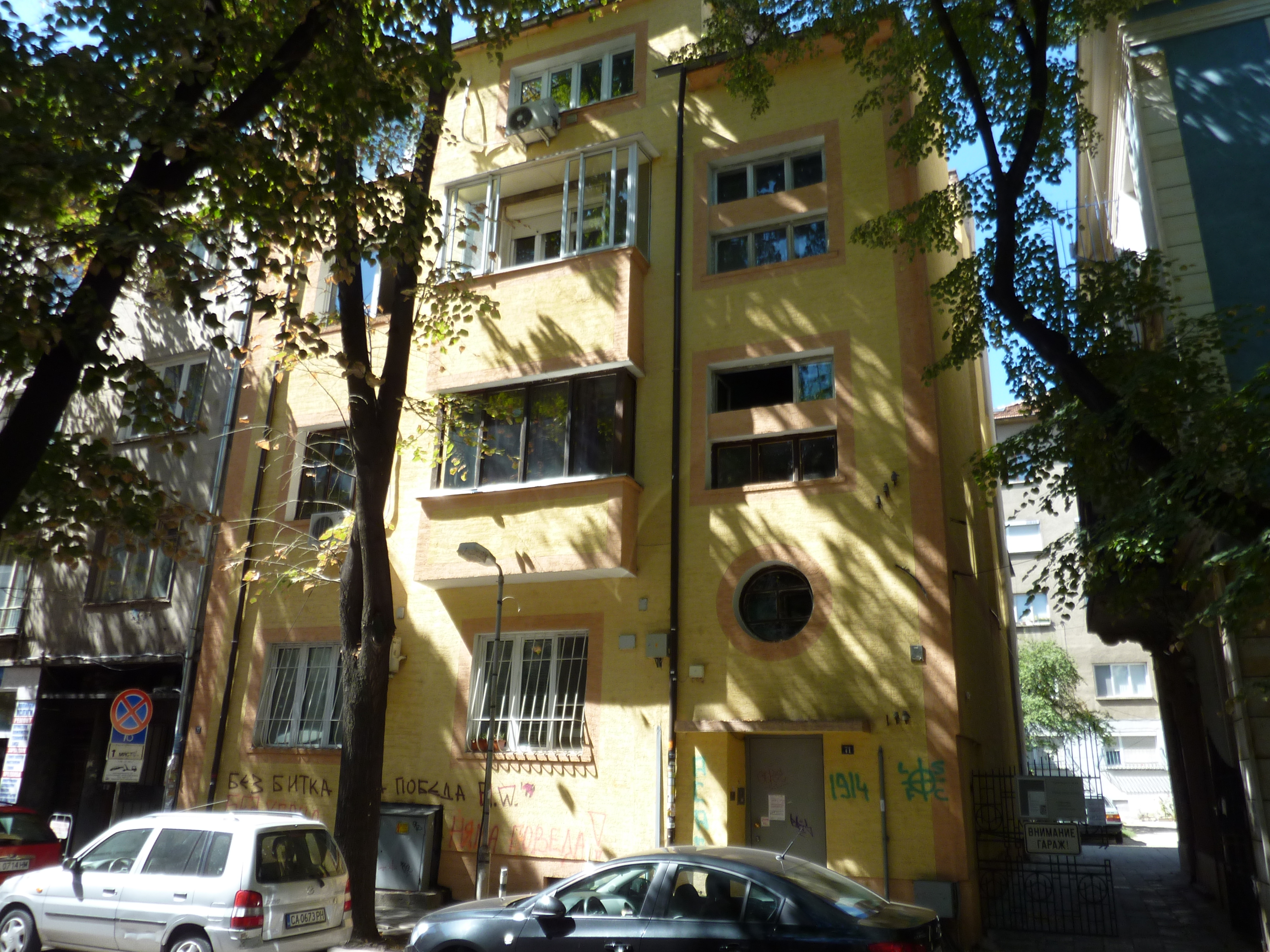 Sofia, paternal house Mencha Karnicheva